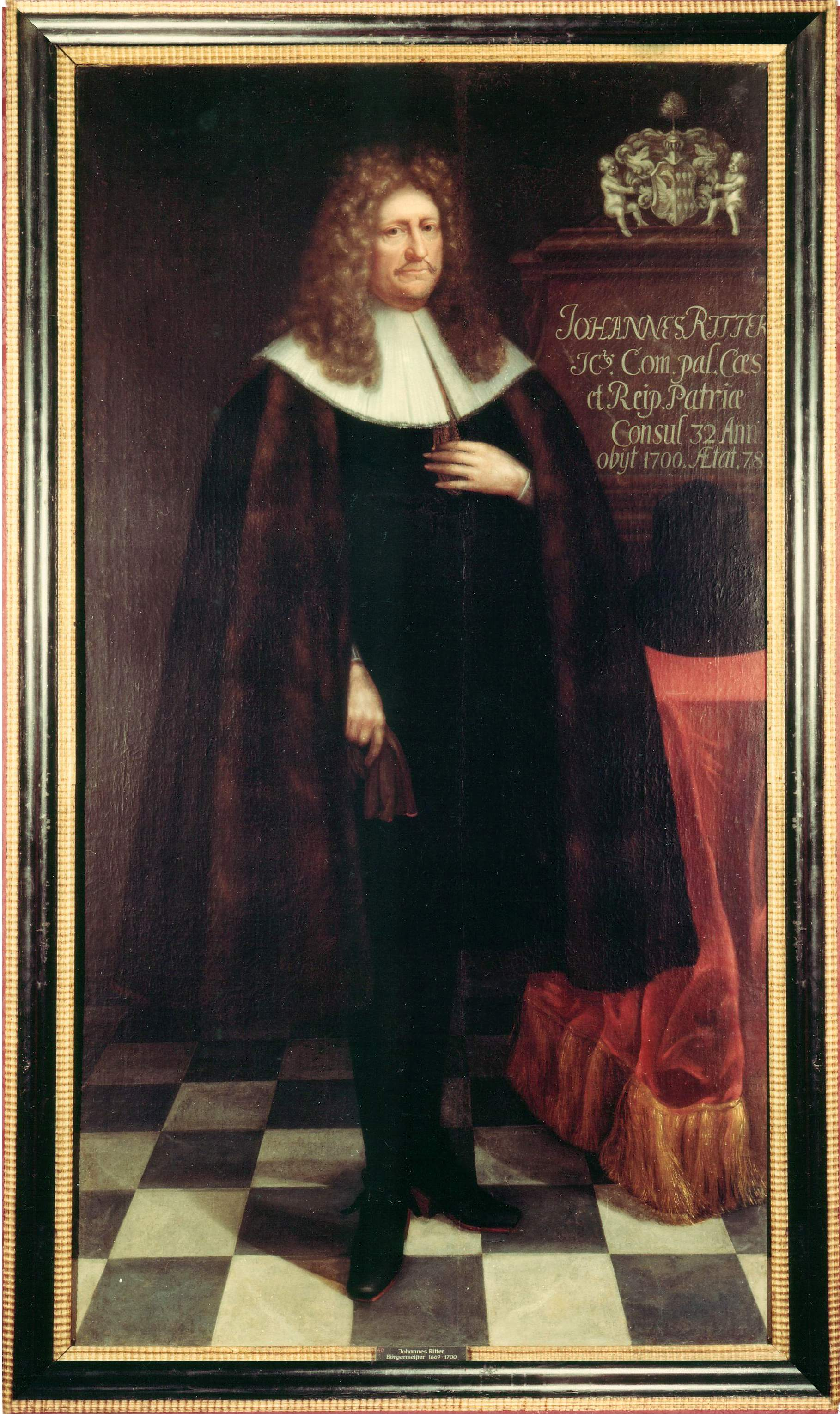 Johann Ritter (* 1622 in Lübeck, † September 1, 1700 ibid) lawyer and Mayor of the Hanseatic city of Lübeck, Germany.